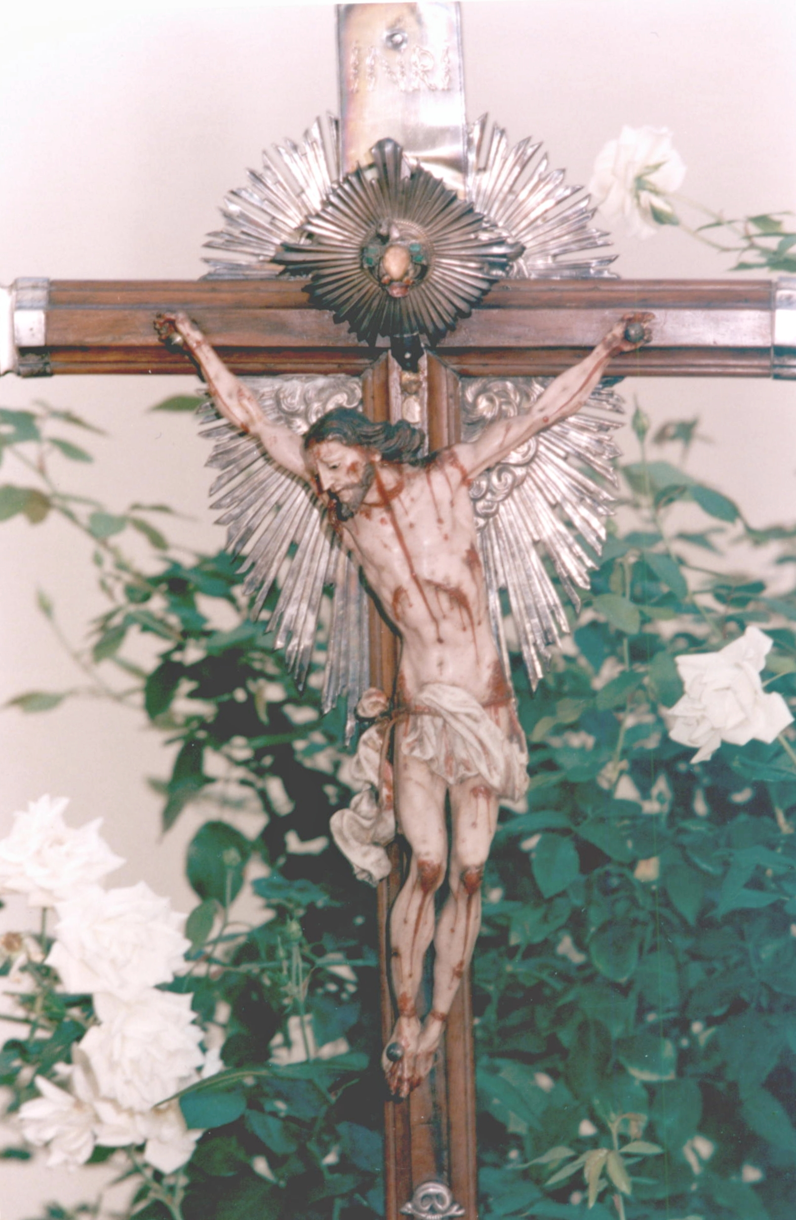 Crucifix - Monastery Santa Teresa de Jesús (Buenos Aires)